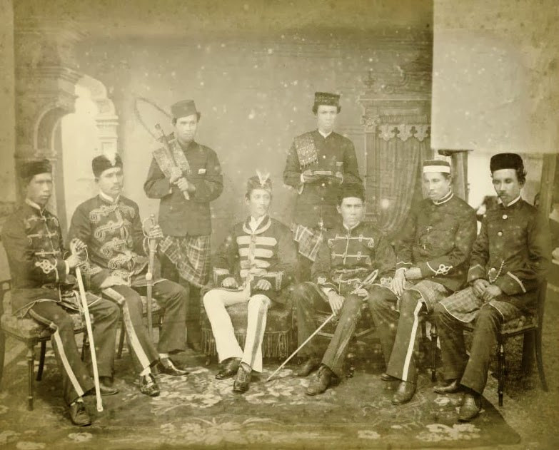 The sultan and the nobility. 1880.